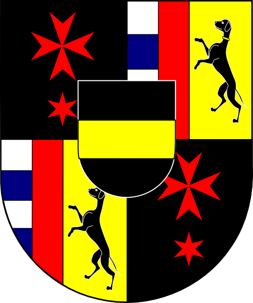 Coat of arms (shield only) of Karl vom Lamberg, archbishop of Prague (1607 - 1612).